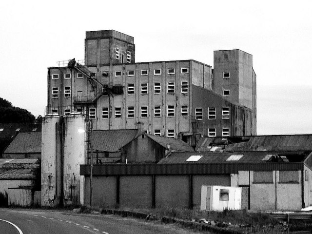 Milford Bakery The disused Milford Bakery